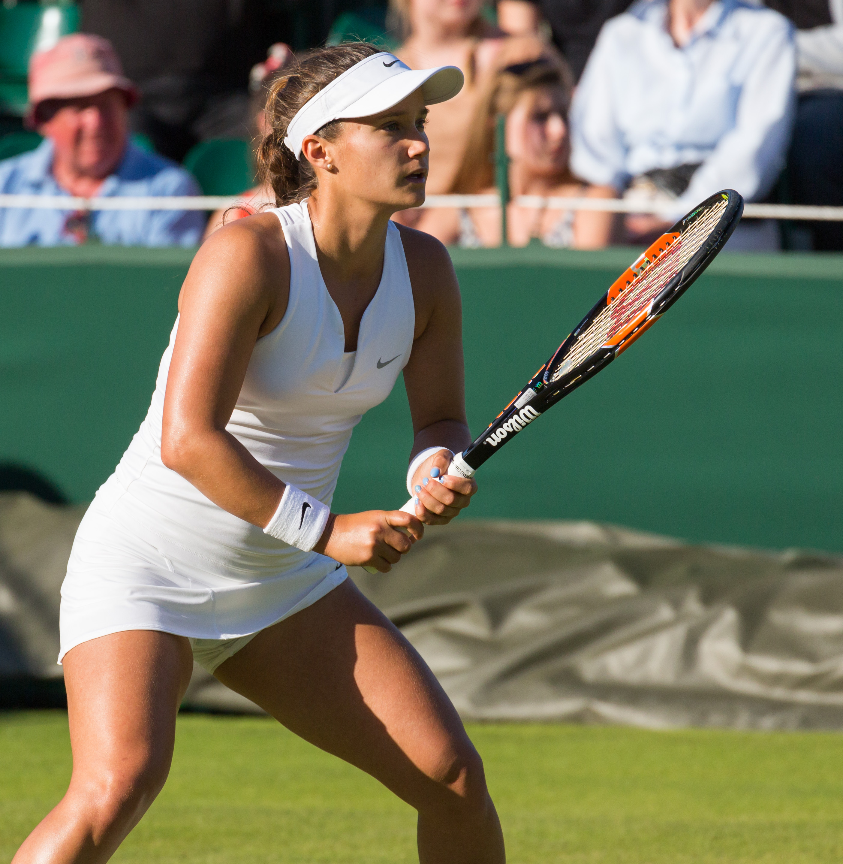 Lauren Davis competing in the first round of the 2015 Wimbledon Championships.